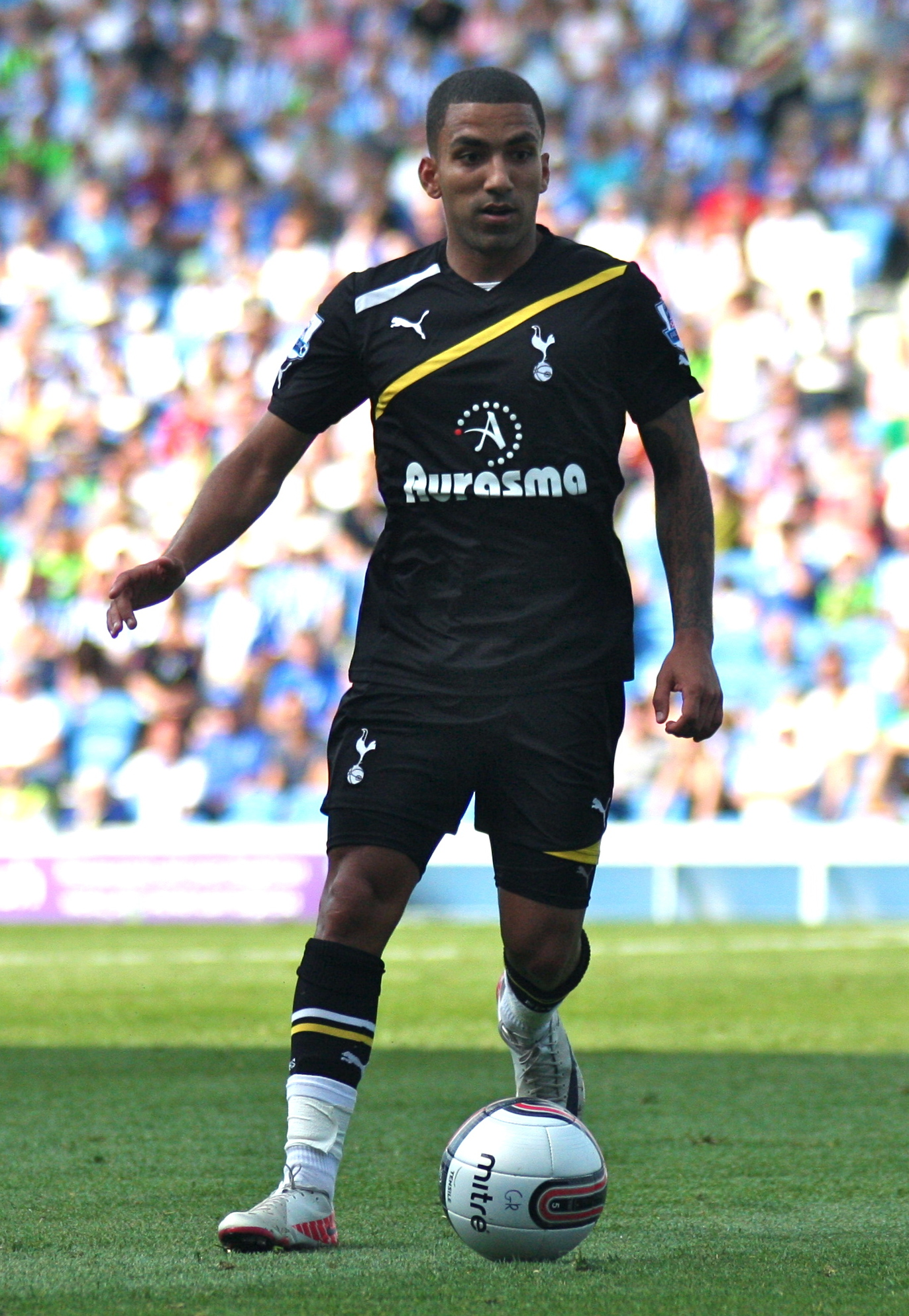 Aaron Lennon of Tottenham Hotspur